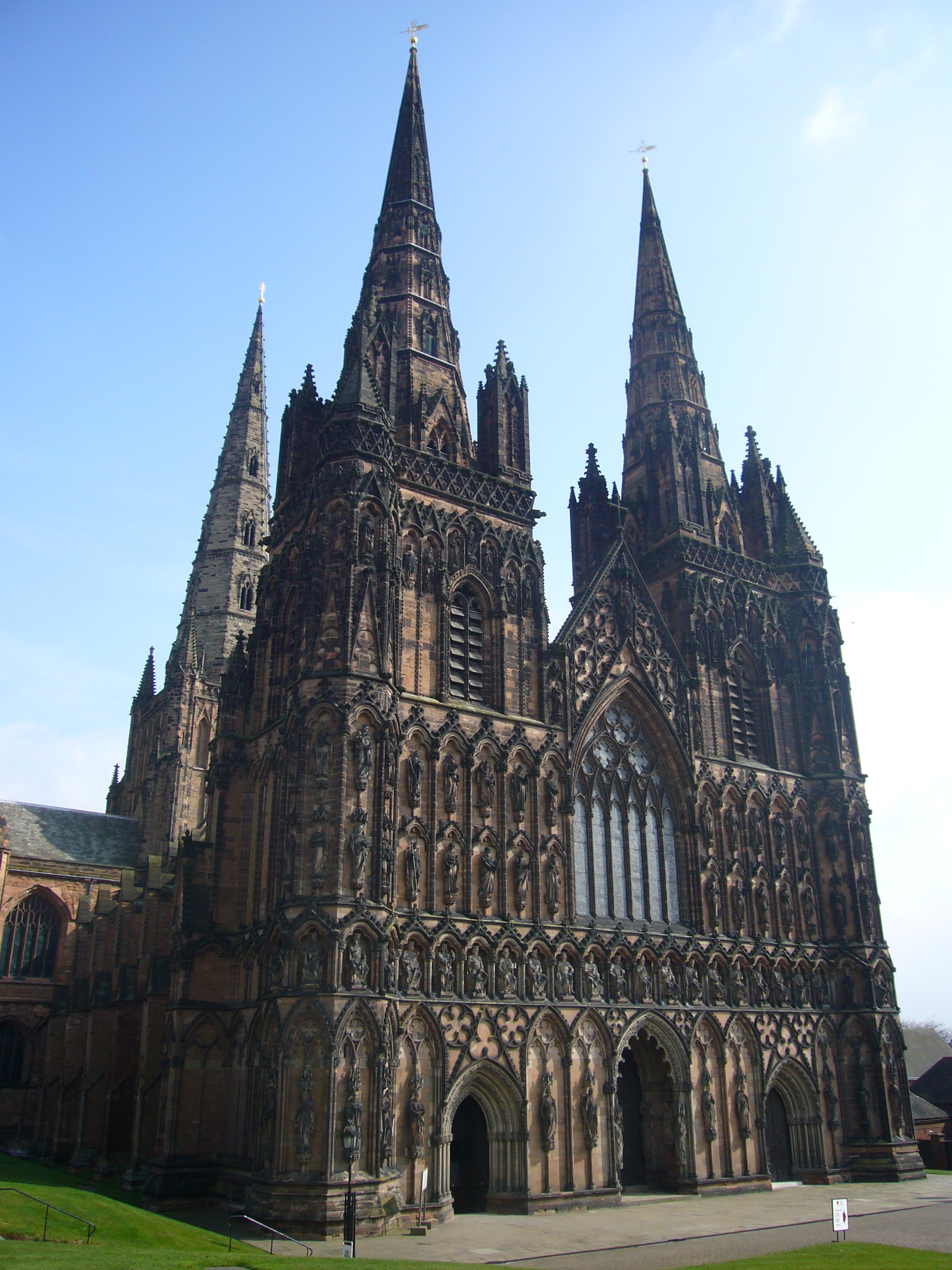 A view of Lichfield Cathedral from the north West.